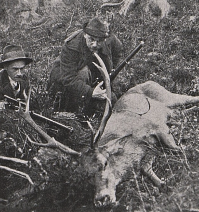 Dr Jaromír Doležal, Czech diplomat and art historician, 1934